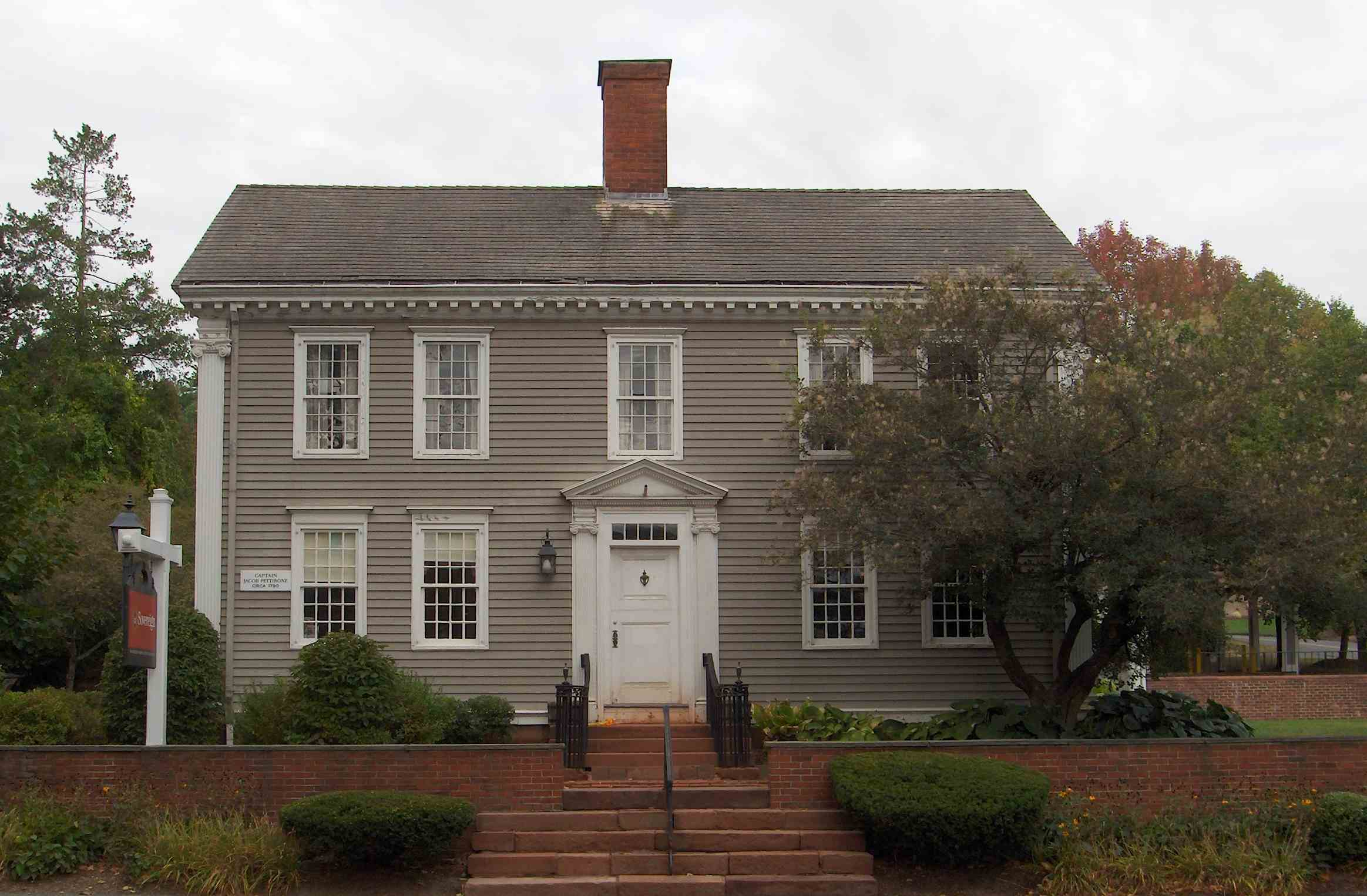 Captain Jacob Pettibone House circa 1790, located at 741 Hopmeadow Street in Simsbury CT USA. Part of the National Register of Historic Places Simsburv Center Historic District